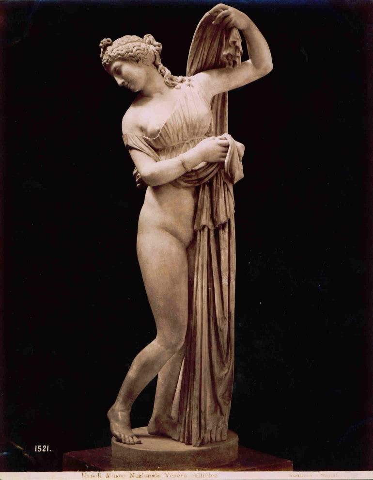 Giorgio Sommer (1834-1914), "Naples - National Museum - Aphrodite Kallipygos". Catalogue # 1515.